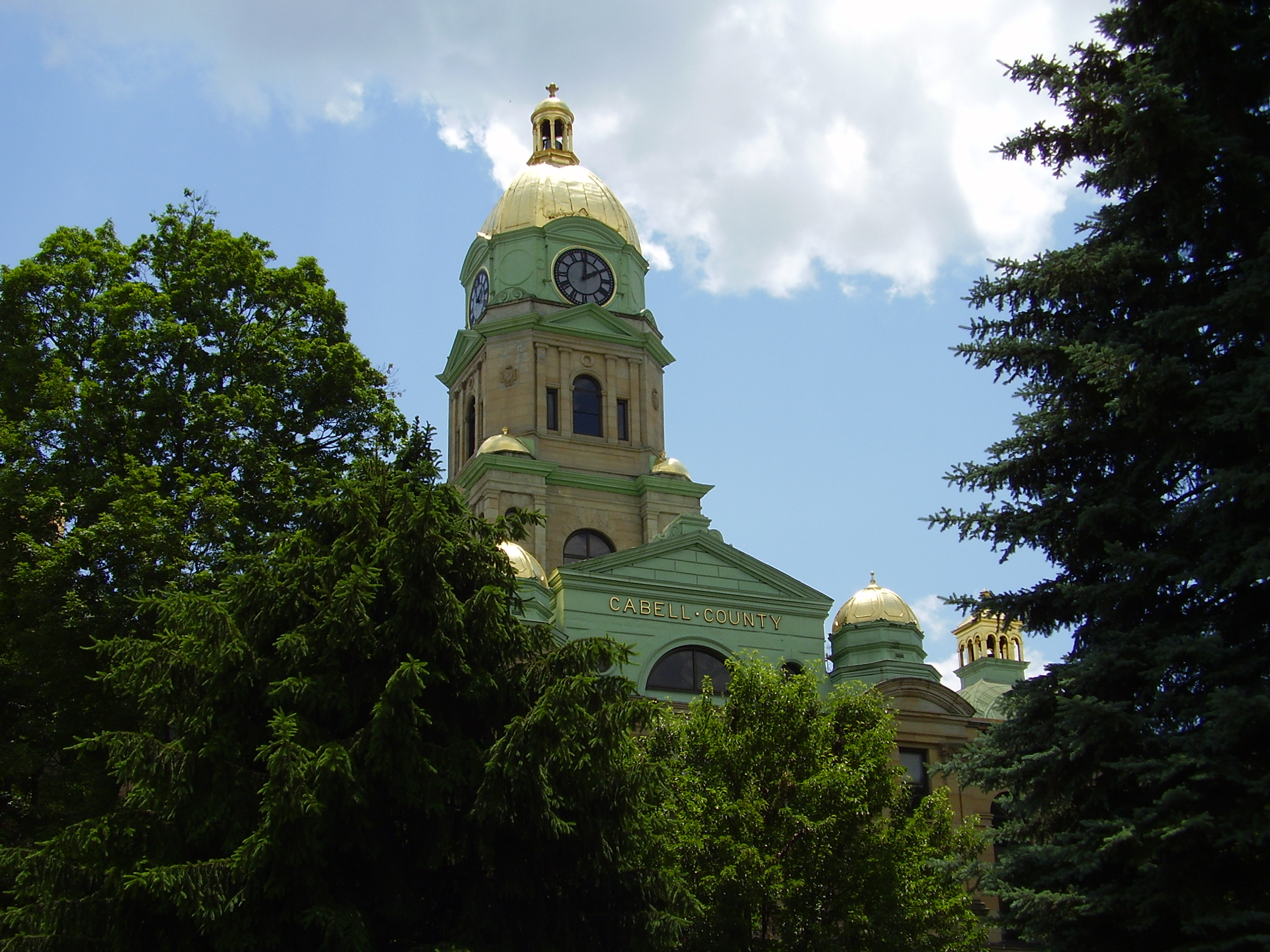 The Cabell County Court House located in Huntington, WV, from the adjacent sidewalk on 4th Ave (near intersection with 10th St).